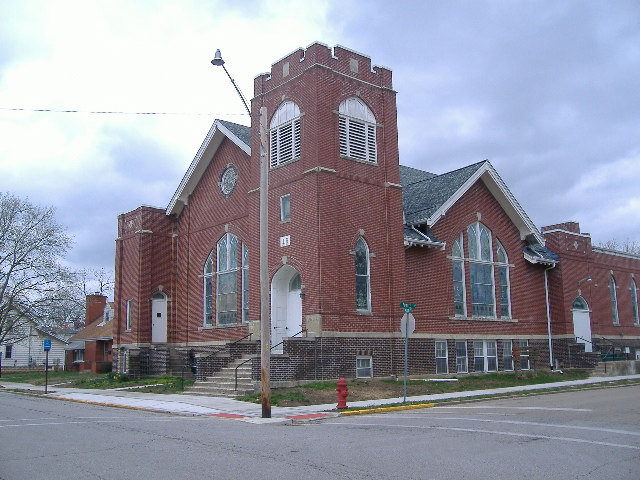 Zion United Methodist Church.